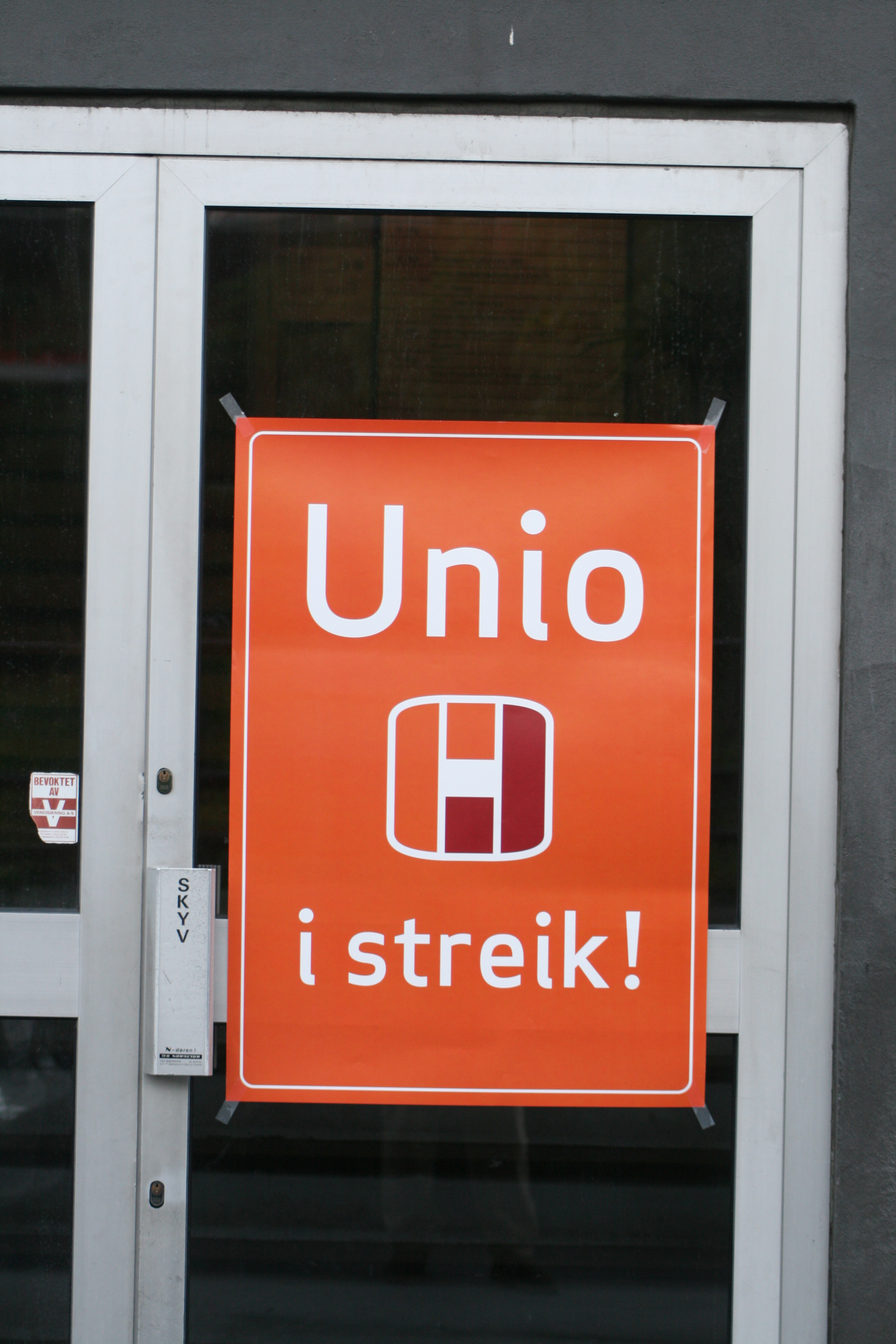 Poster showing that trade union Unio in Norway is striking (2008)